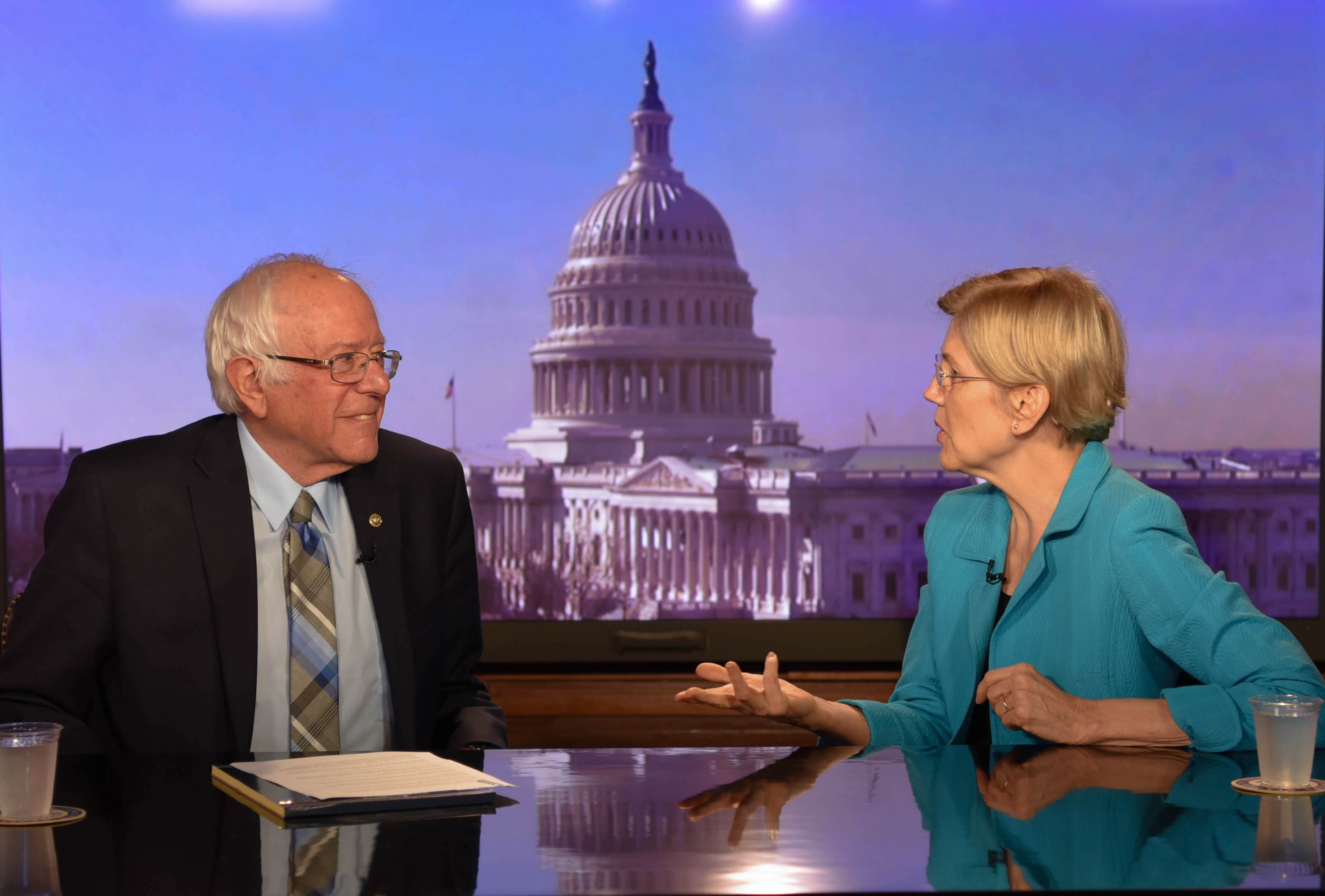 Bernie Sanders and Elizabeth Warren 2017.